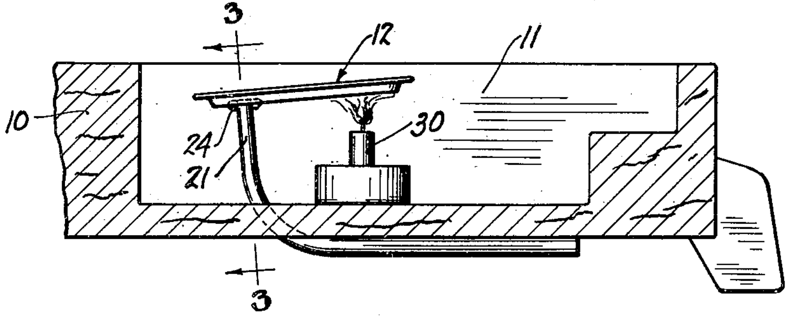 Diagram of a diaphragm style pop pop boat, from Paul Jones' 1934 patent (patent 1,993,670).